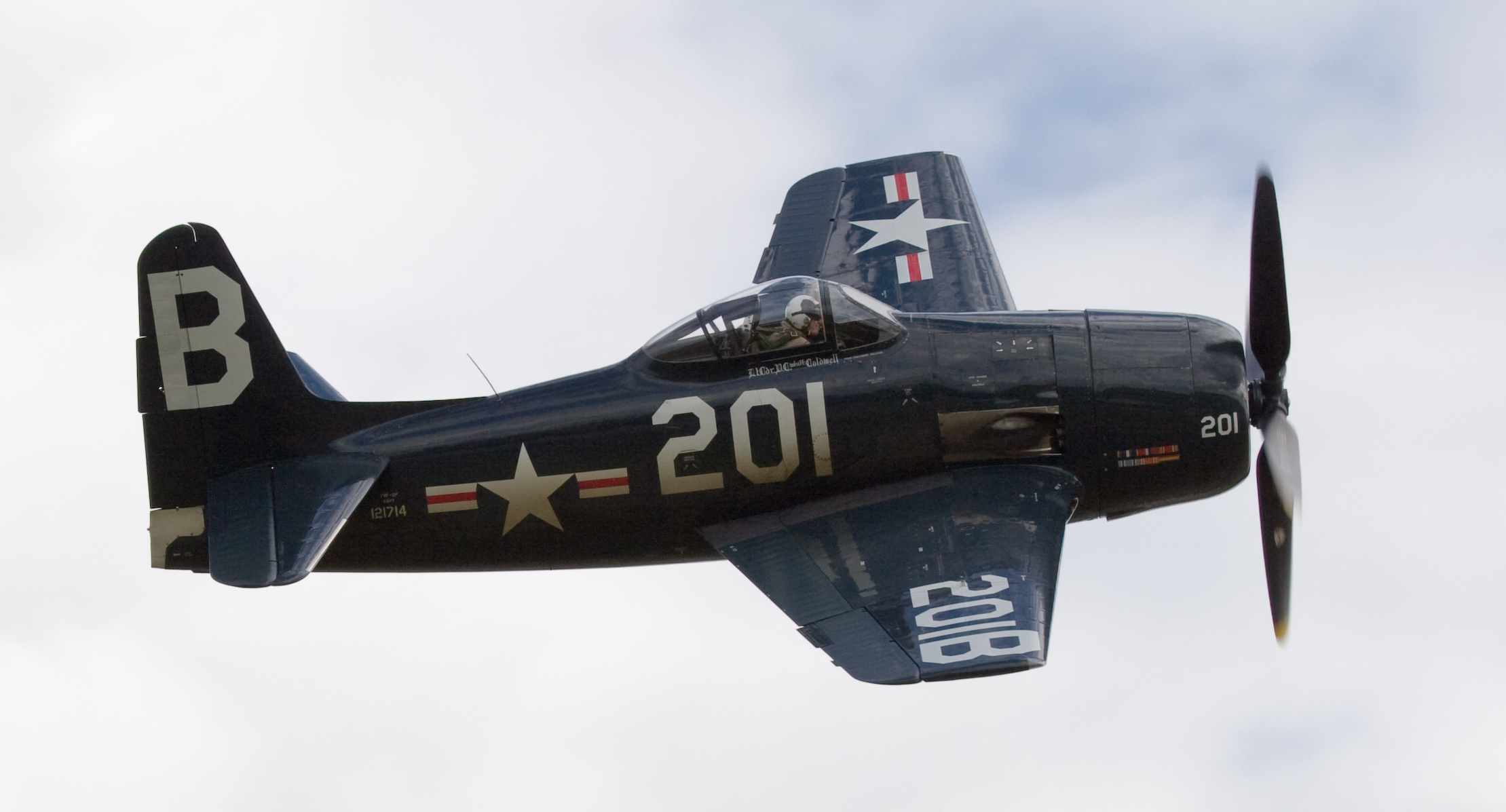 Grumman F8F-2P Bearcat G-RUMM N700HL of the Fighter Collection, based at Duxford, Cambridgeshire, UK